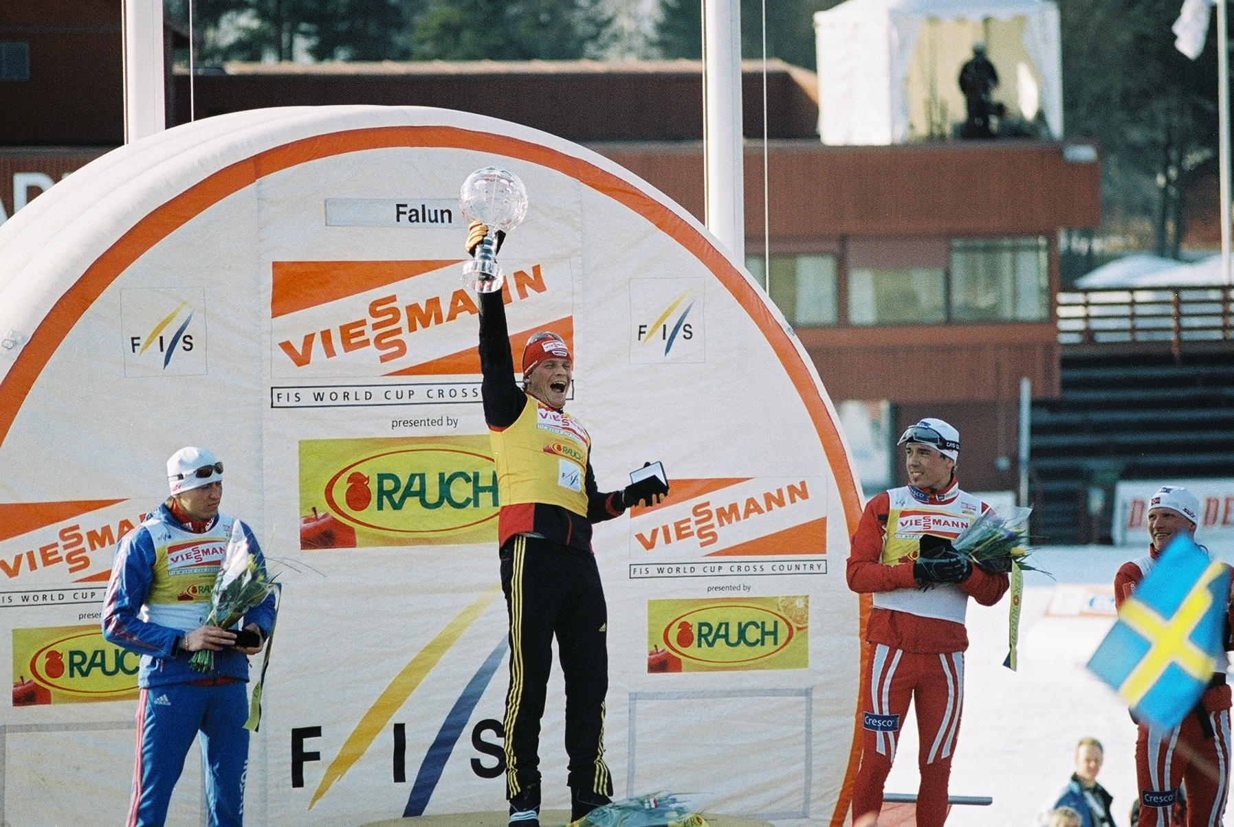 Tobias Angerer wins the FIS Cross Country Ski World Cup 2006/07, 2nd Alexander Legkov and 3rd Eldar Rønning